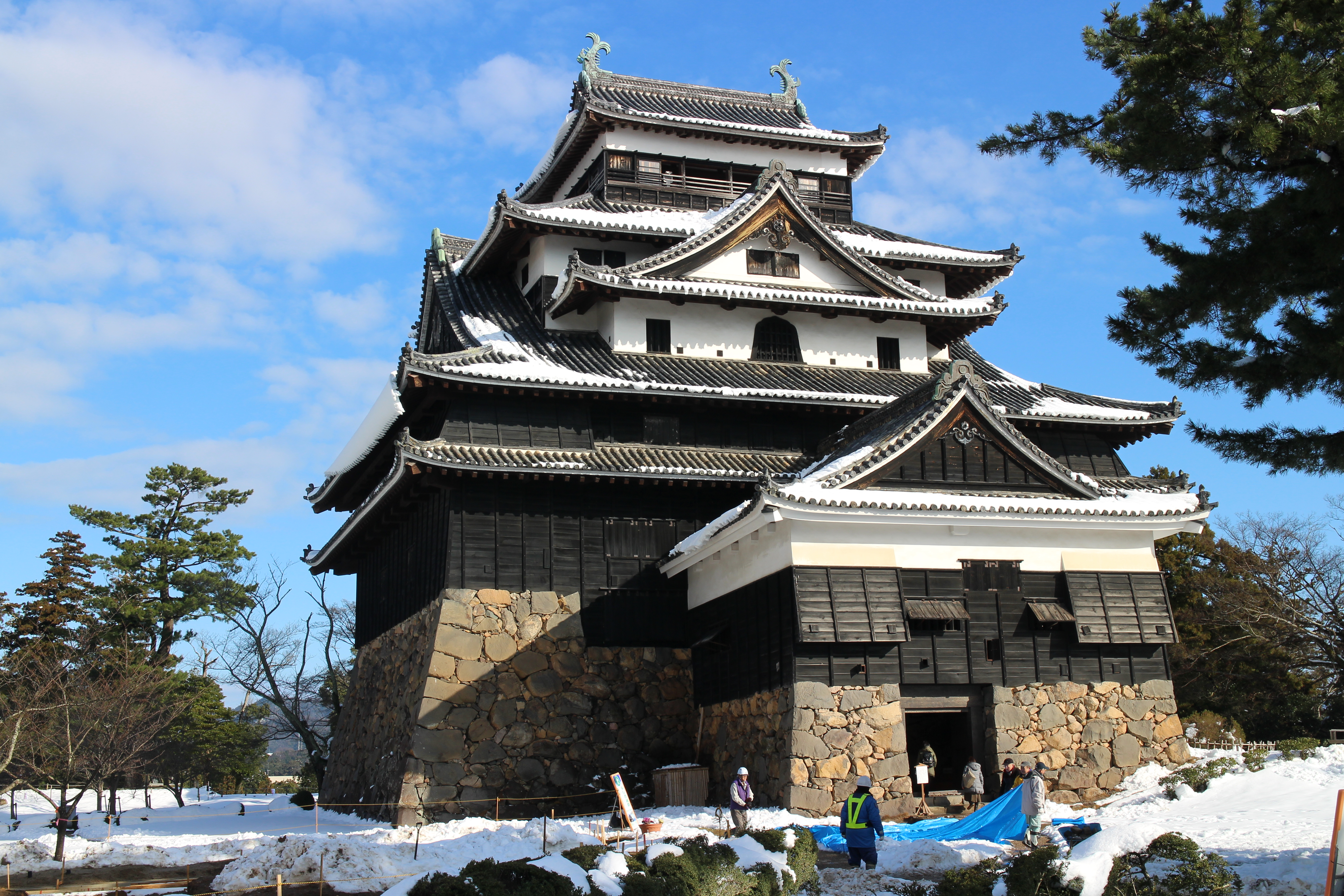 Matsue Castle Keep Tower